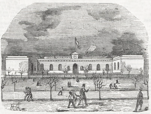 Barcelona 1 train station, commonly known as Barcelona-Mataró. Built in 1848, demolished in 1924.